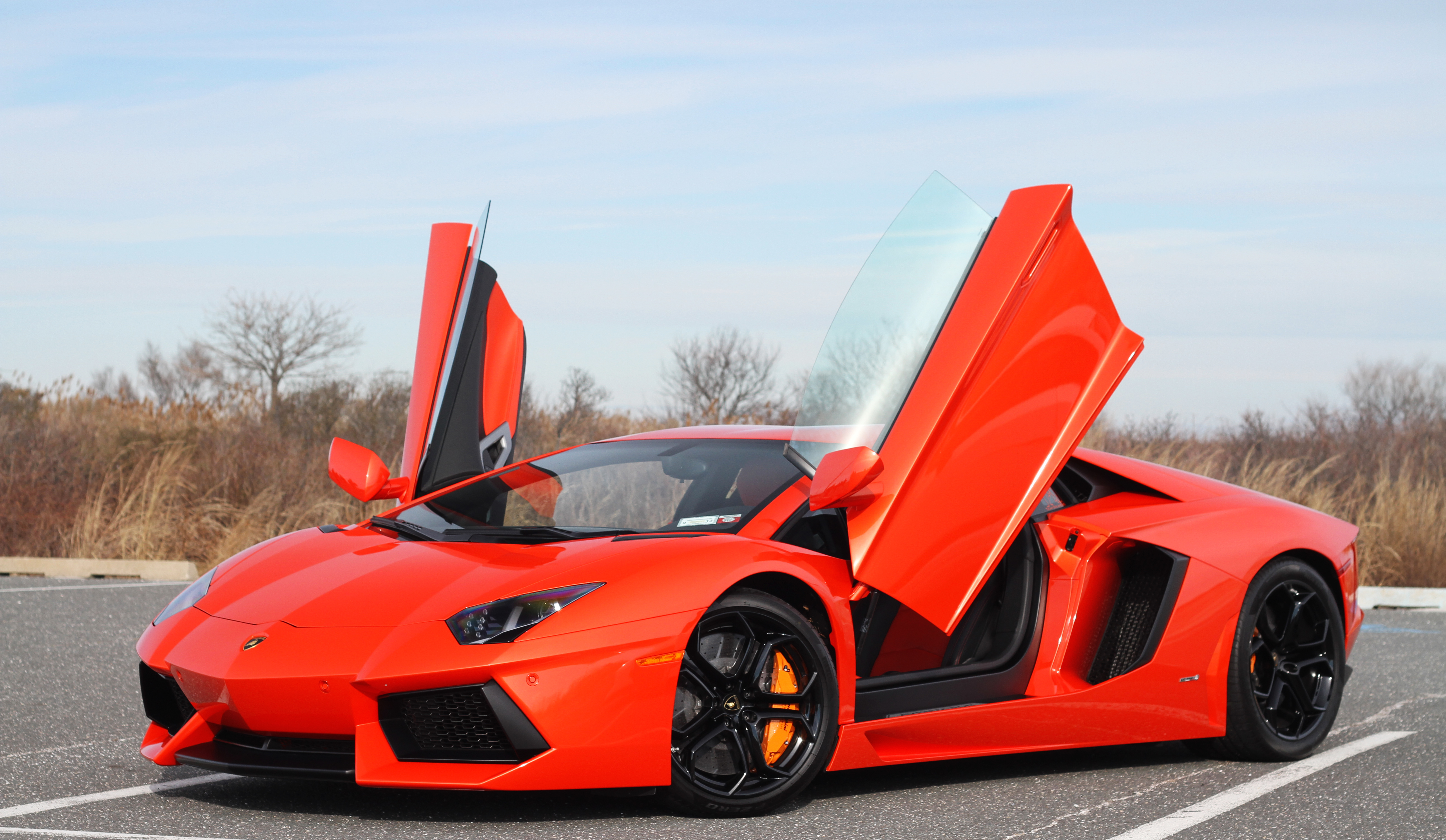 This car is just so incredible.